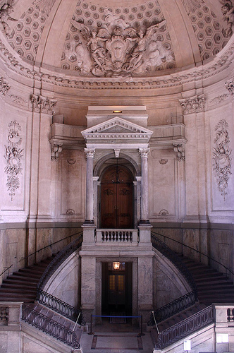 Staircase in the Royal Palace (Kungliga Slottet) Stockholm